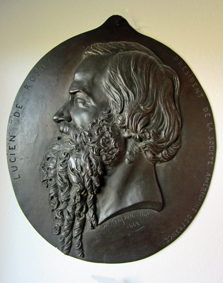 Lucien de Rosny, bronze low-relief 30 x 25 cm, 1862